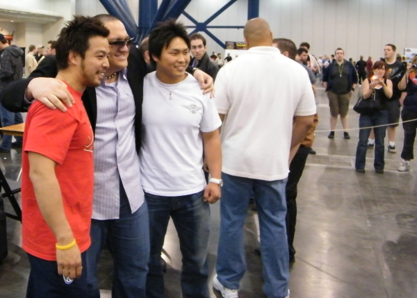 Samoa Joe is happy to pose for a photo with Kenta and Katsuhiko Nakajima as D-Lo Brown greets fans.